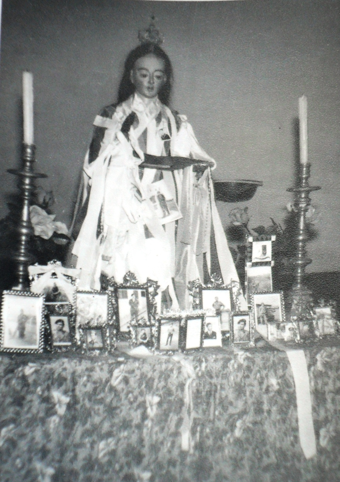 St Suzana's image